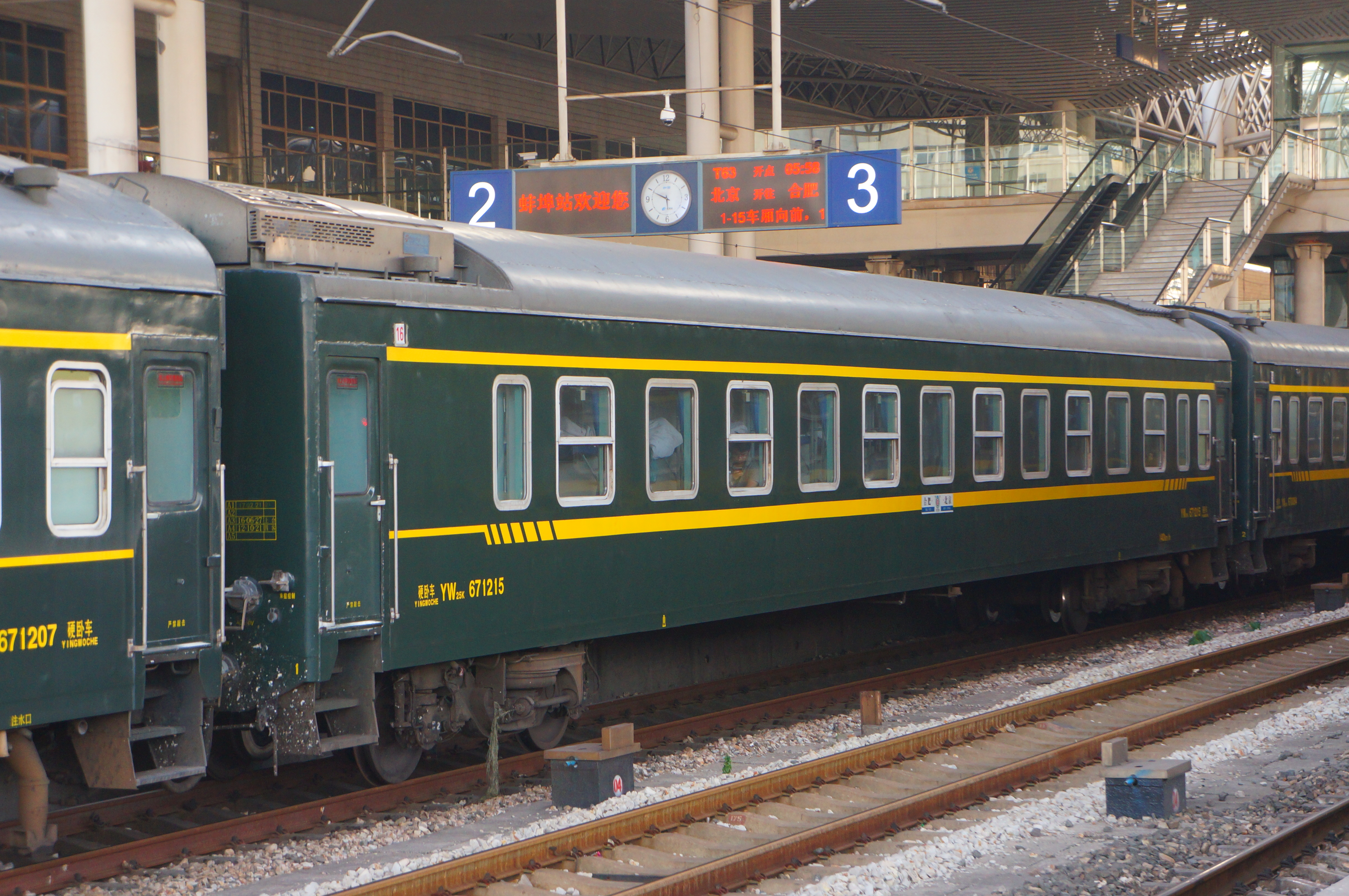 201705 YW25K-671215 from T63 at Bengbu Station